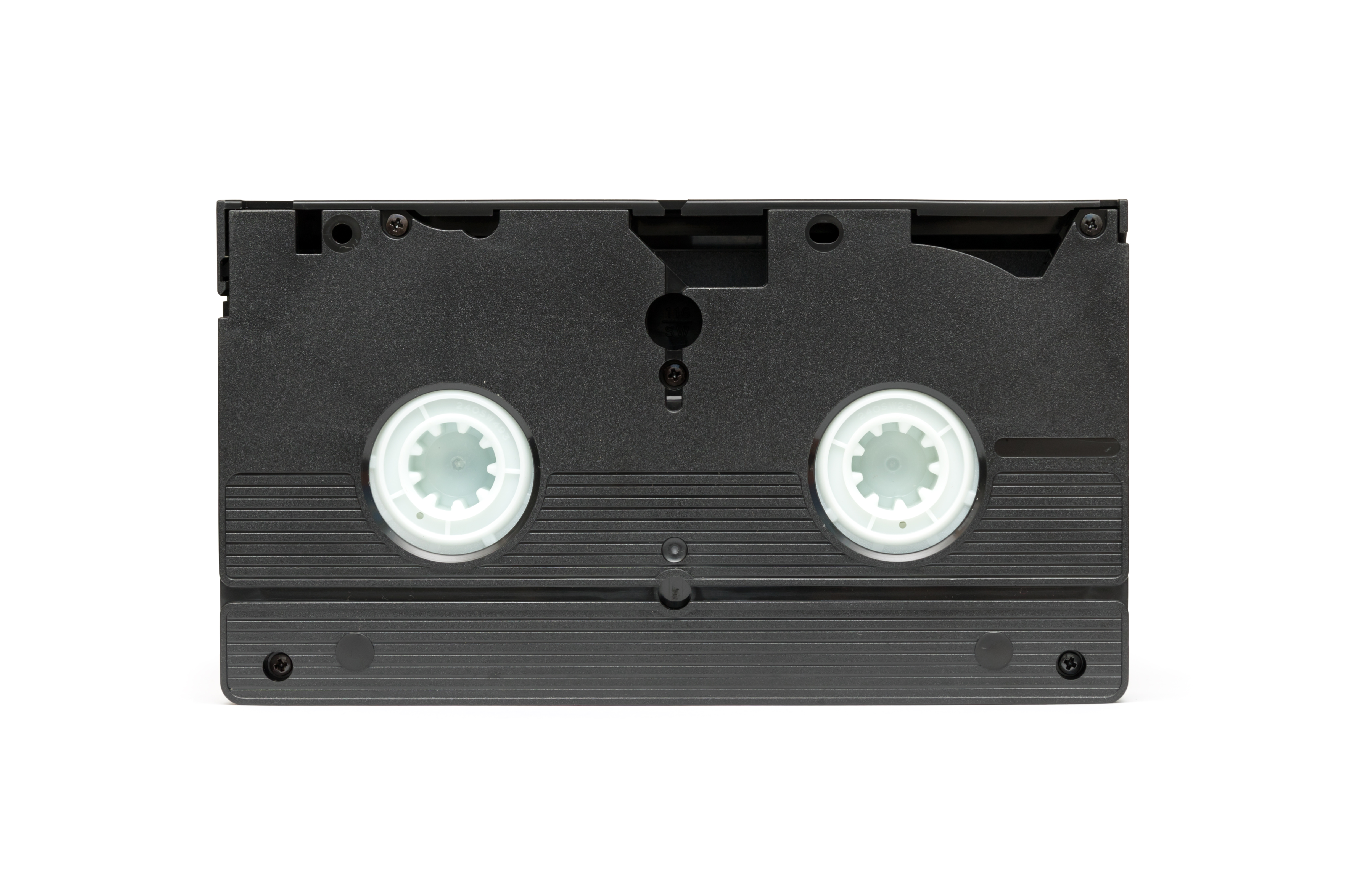 Back view of VHS E-30 videocassette (PAL system)